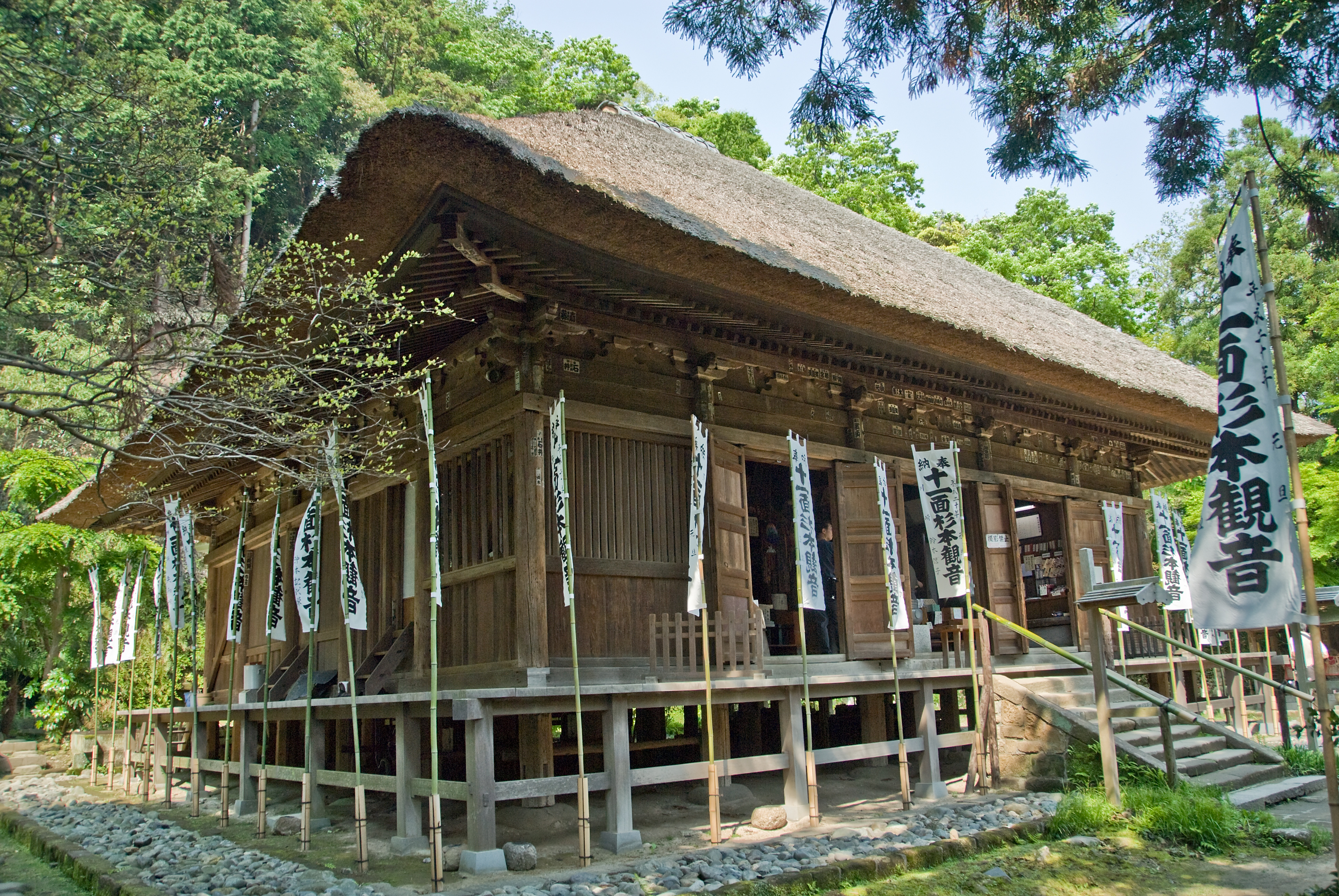 The Main Hall of Sugimoto-dera, the oldest temple in Kamakura.